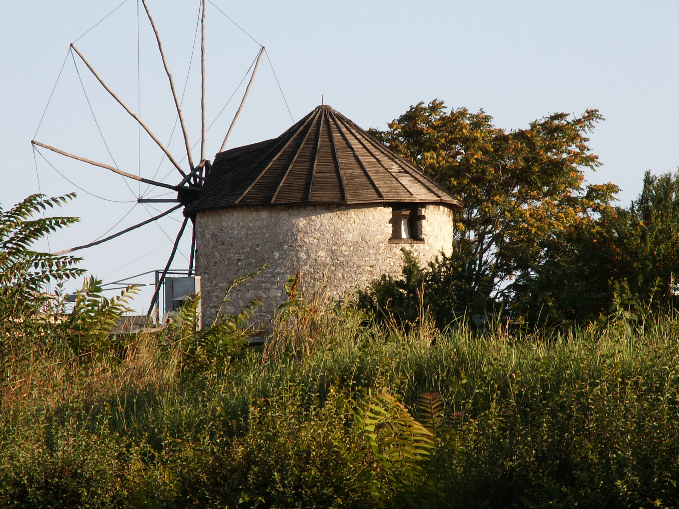 The windmill at the way to Nesebar